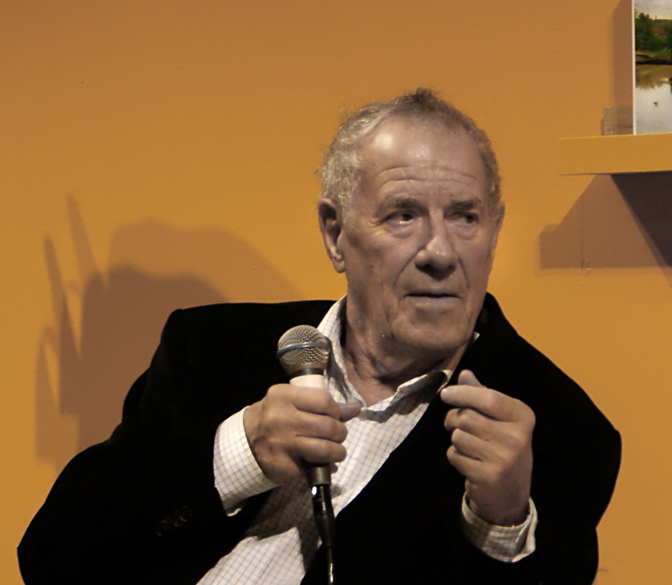 Swedish author Per Wästberg, member of the Swedish Academy, at the 2010 Göteborg Book Fair.